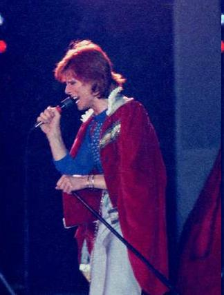 05 July 1974 - Charlotte Park Centre